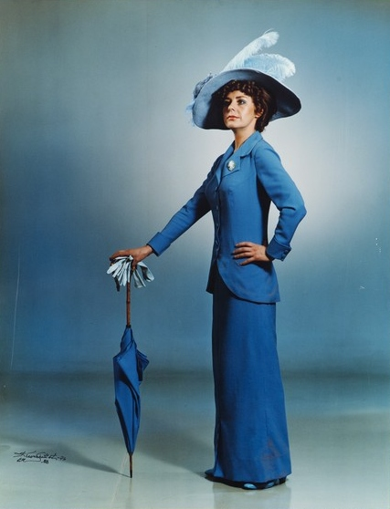 Photograph of the Finnish actor Pirkko Mannola (1938–) in the role of Pygmalion.